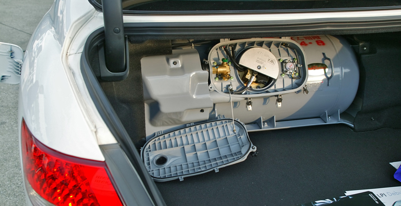 Japanese in-vehicle LPG bottle on Hyundai Grandeur